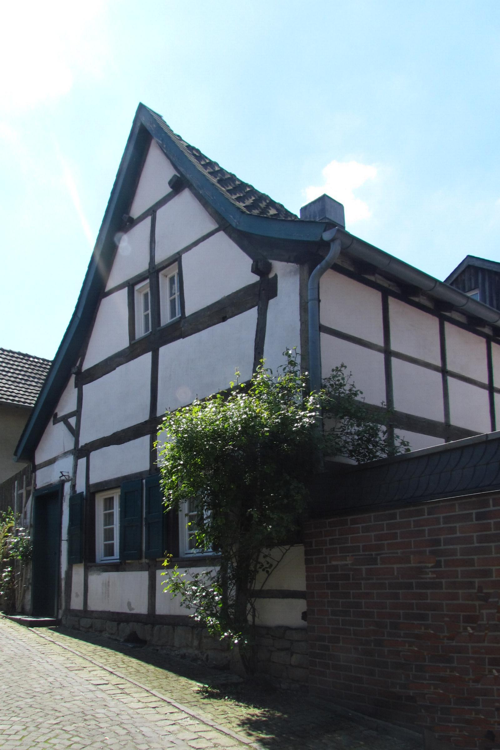 This is a photograph of an architectural monument.It is on the list of cultural monuments of Korschenbroich